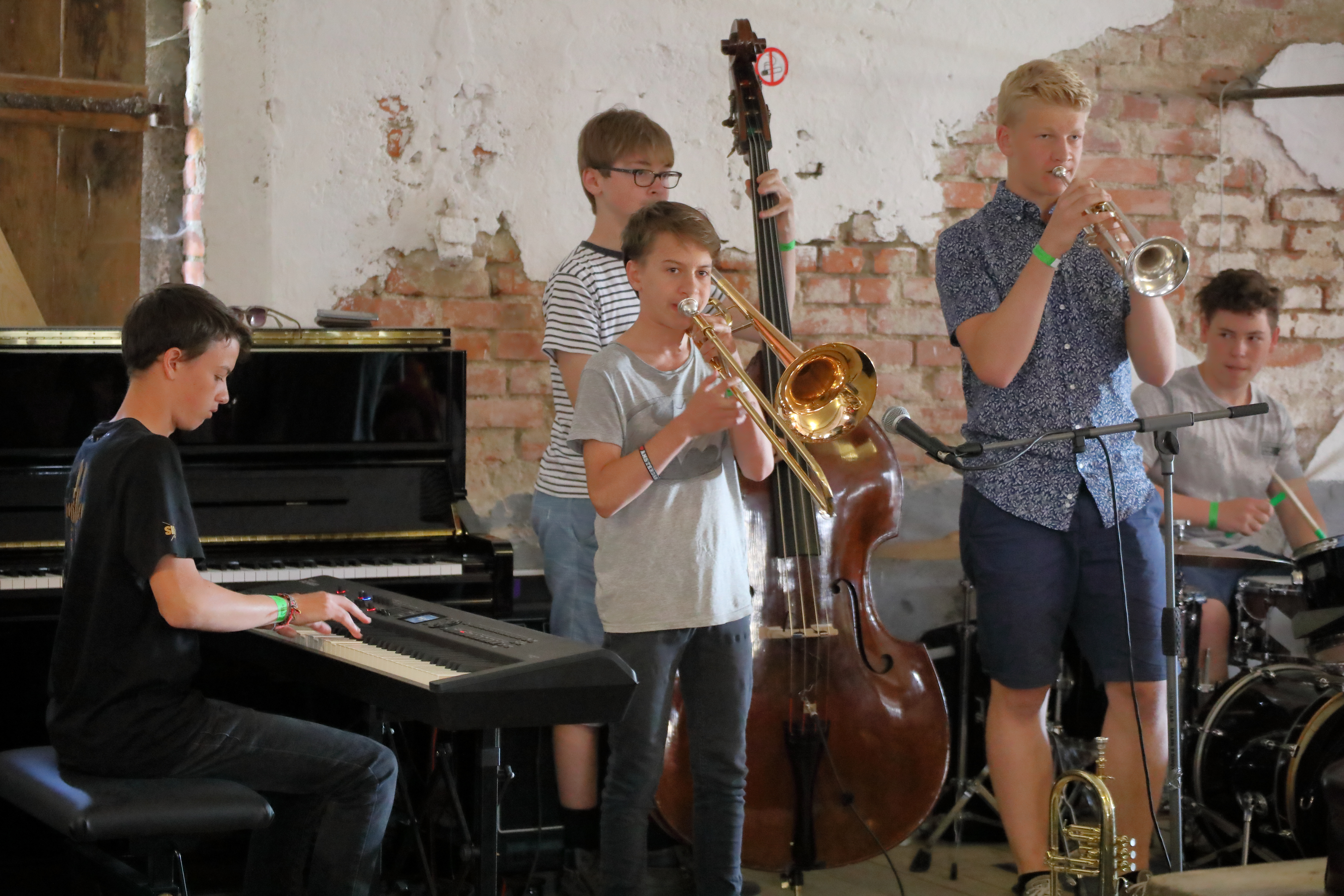 The new blood band FunChord playing at INNtöne Jazzfestival 2019 in "St. Pig´s Pub". The average age of the musicians at this time was is 14 years.